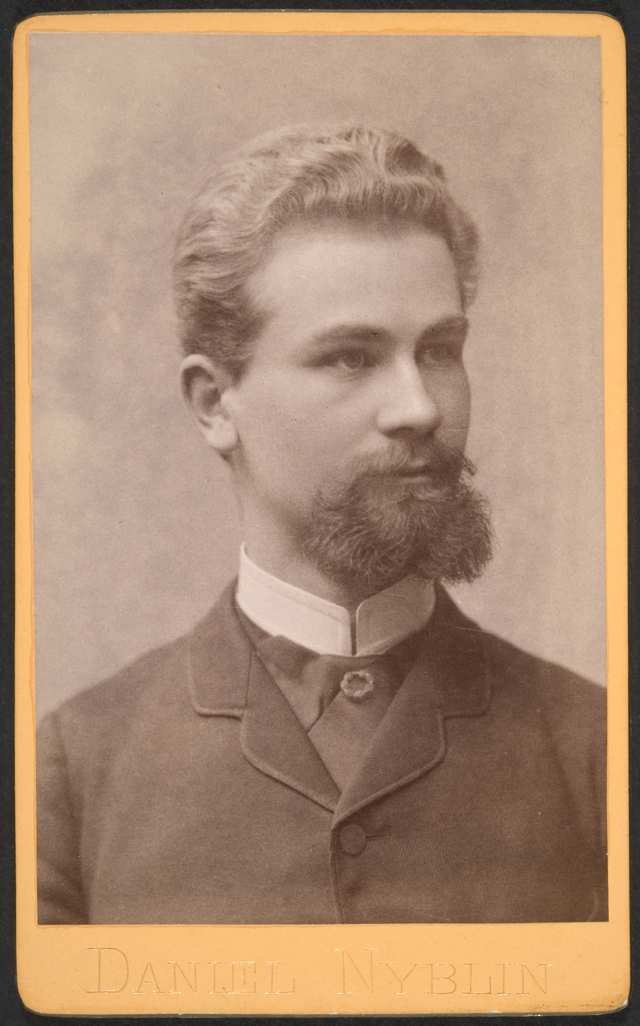 Photograph of the Finnish geographer Johan Rosberg (1864–1932).